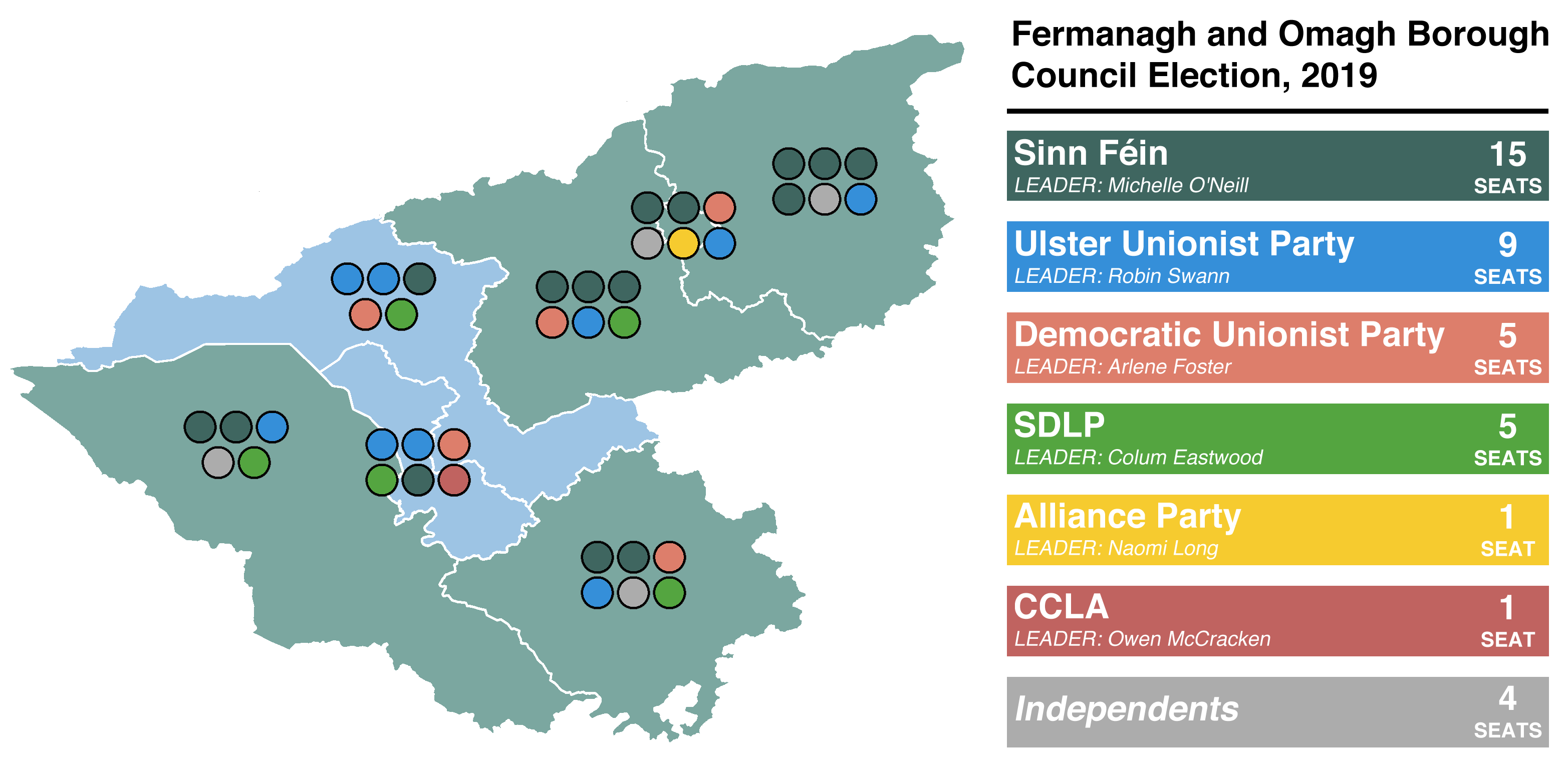 Map of the 2019 Fermanagh and Omagh Borough Council Election